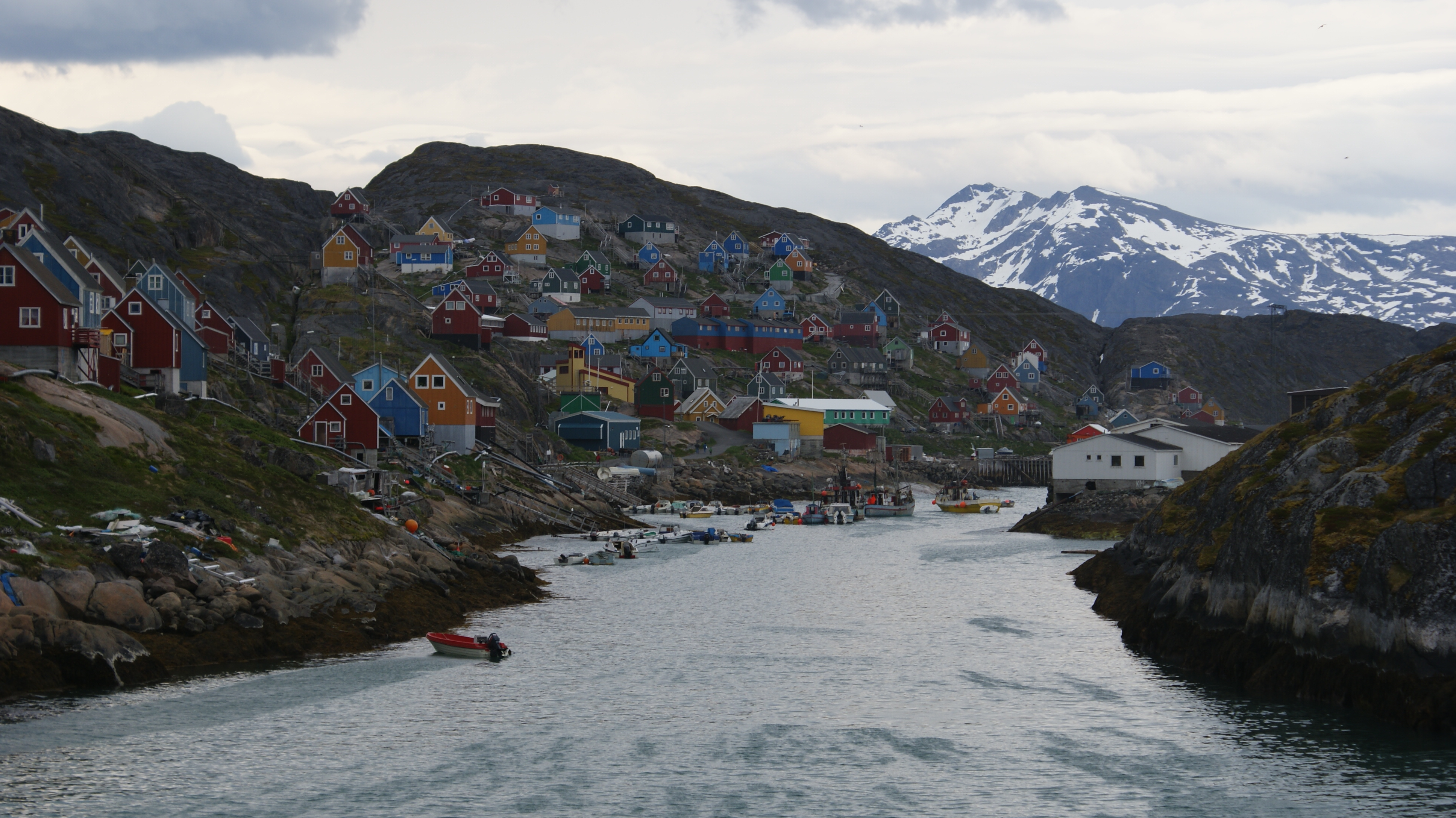 Kangaamiut, a settlement on the shore of Davis Strait, Qeqqata, central-western Greenland, photographed from Sarfaq Ittuk of Arctic Umiaq Line